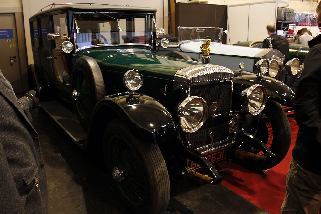 1923 Daimler 57hp 9.4 Litre Hooper Limousine_IMG_1024